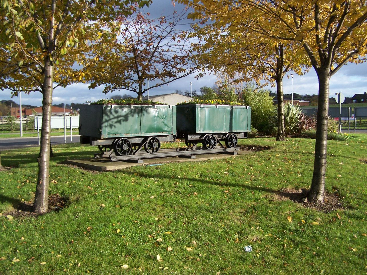 Author: Tina Cordon, Source: Own Picture, Tina Cordon 16:18, 13 November 2006 (UTC)